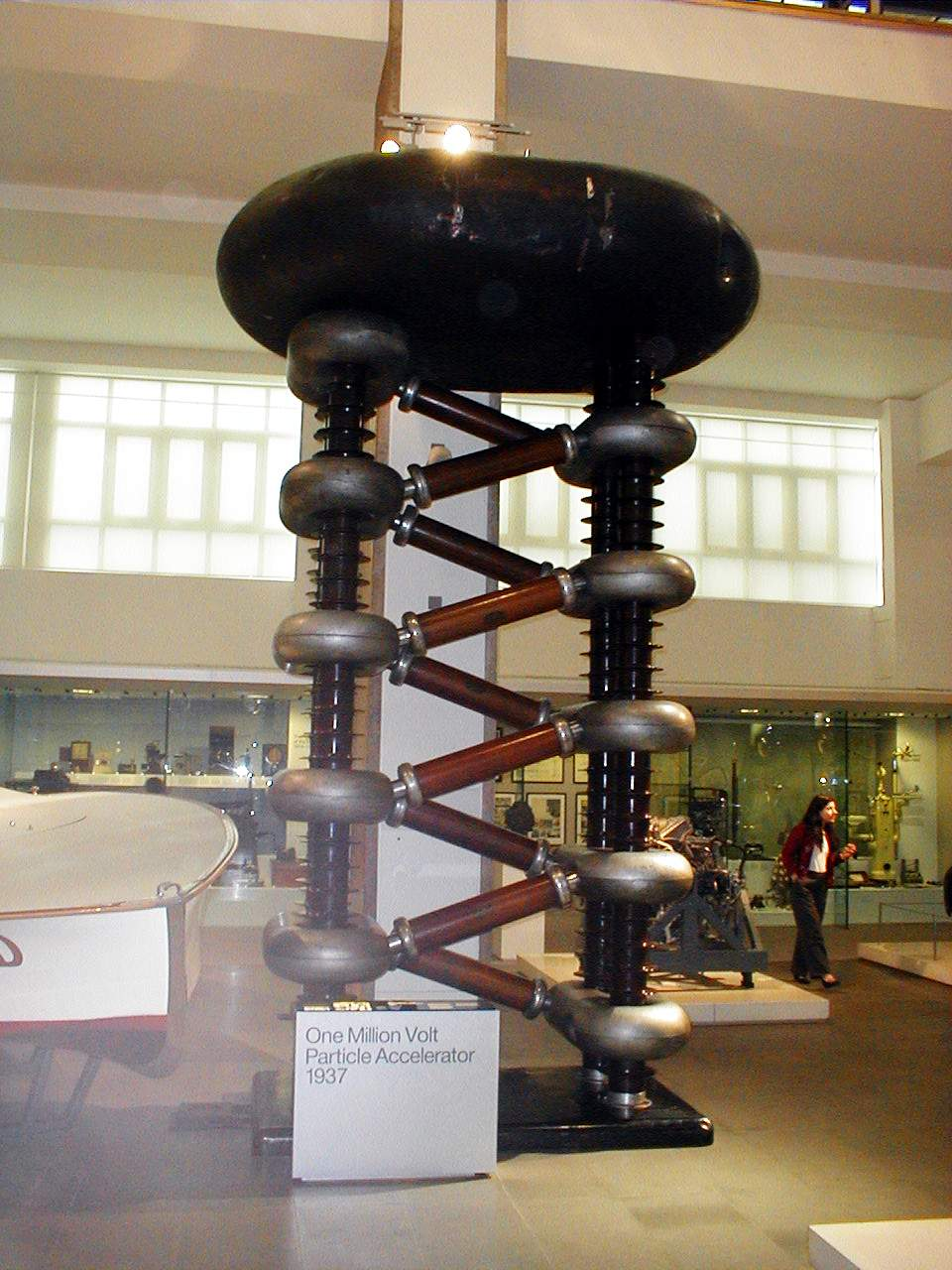 In early particle accelerators a Cockcroft-Walton voltage multiplier was used for voltage multiplying. This piece of a particle accelerator helped in the development of the atomic bomb. Built in 1937 by Philips of Eindhoven it currently resides in the National Science Museum in London, England.